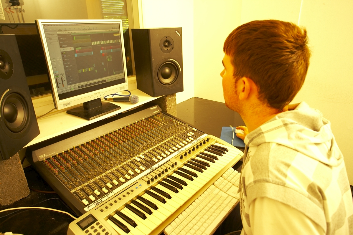 Project Room